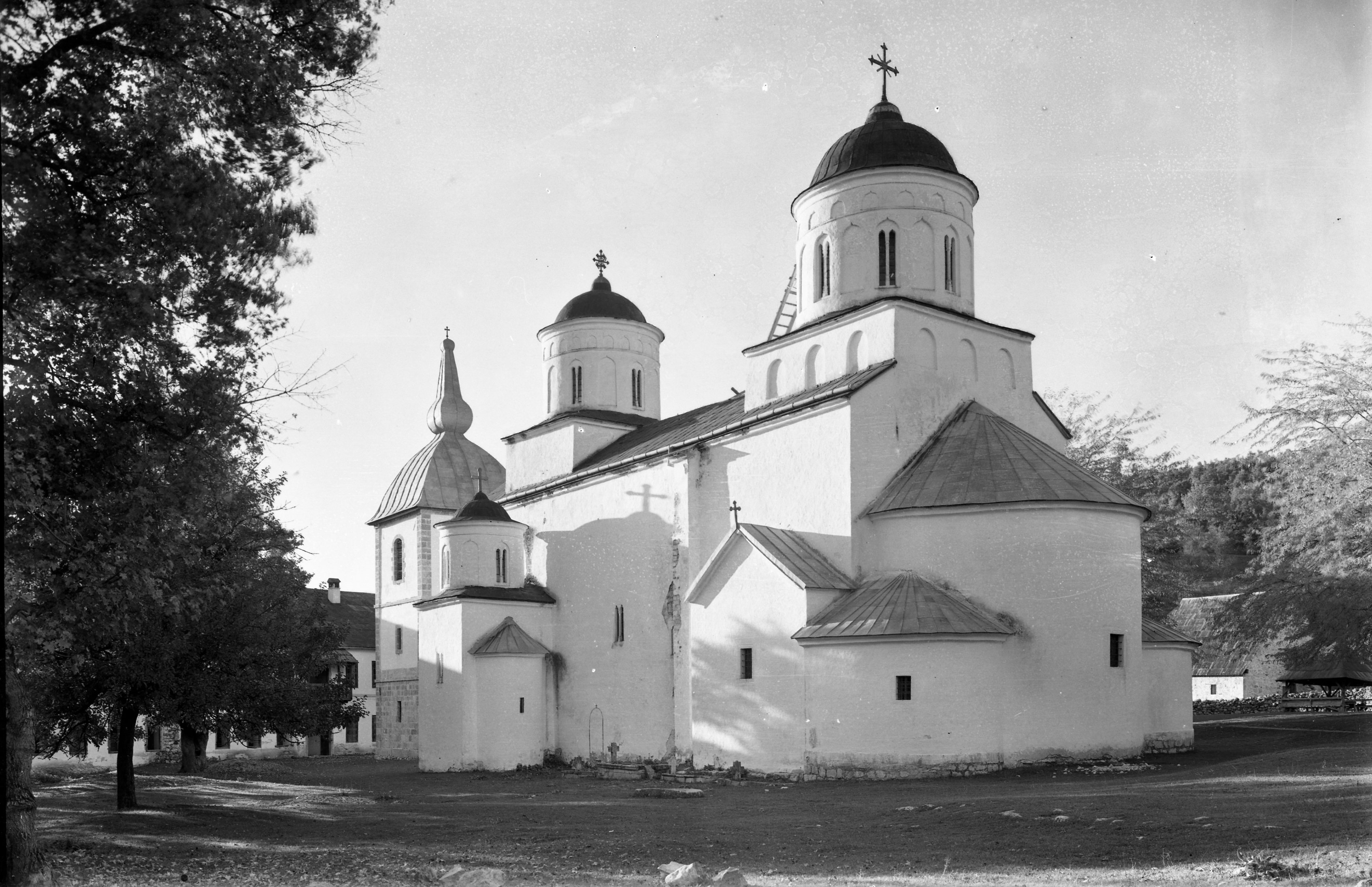 Old photo of Monastery Mileševo near Prijepolje